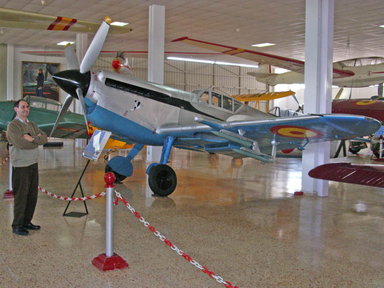 Photograph taken in "Museo del Aire", Spain. I am the author of this picture, and I'd desire everybody could see it freely in Wikipedia.